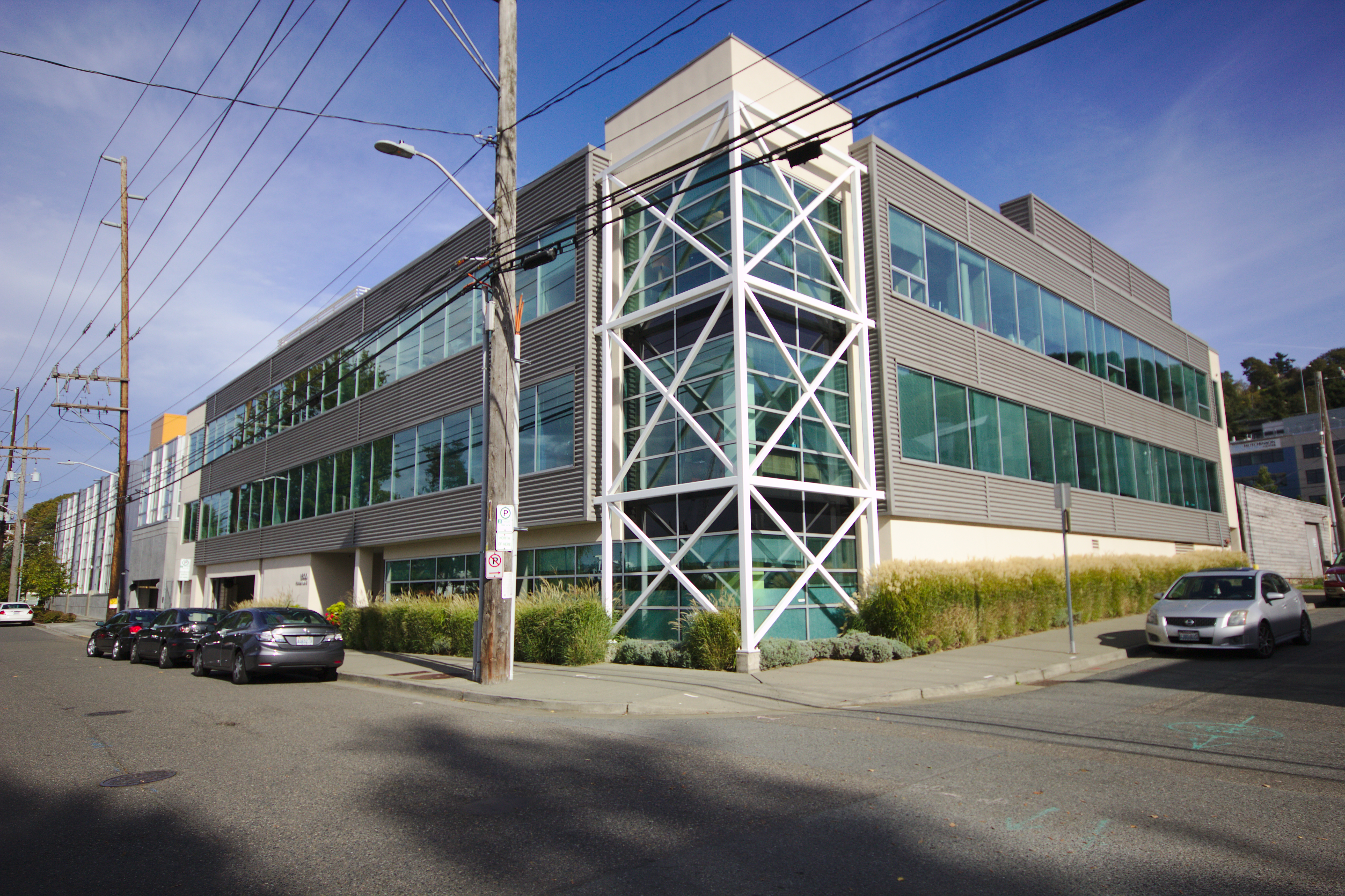 1600 Fairview Ave E in Seattle, Washington